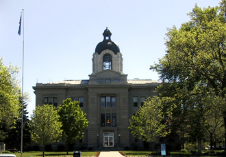 Brookings_court_house, Brookings, South Dakota Boarisch: Brookings County Courthouse in Brookings, seit 1976 im NRHP glistet[1].